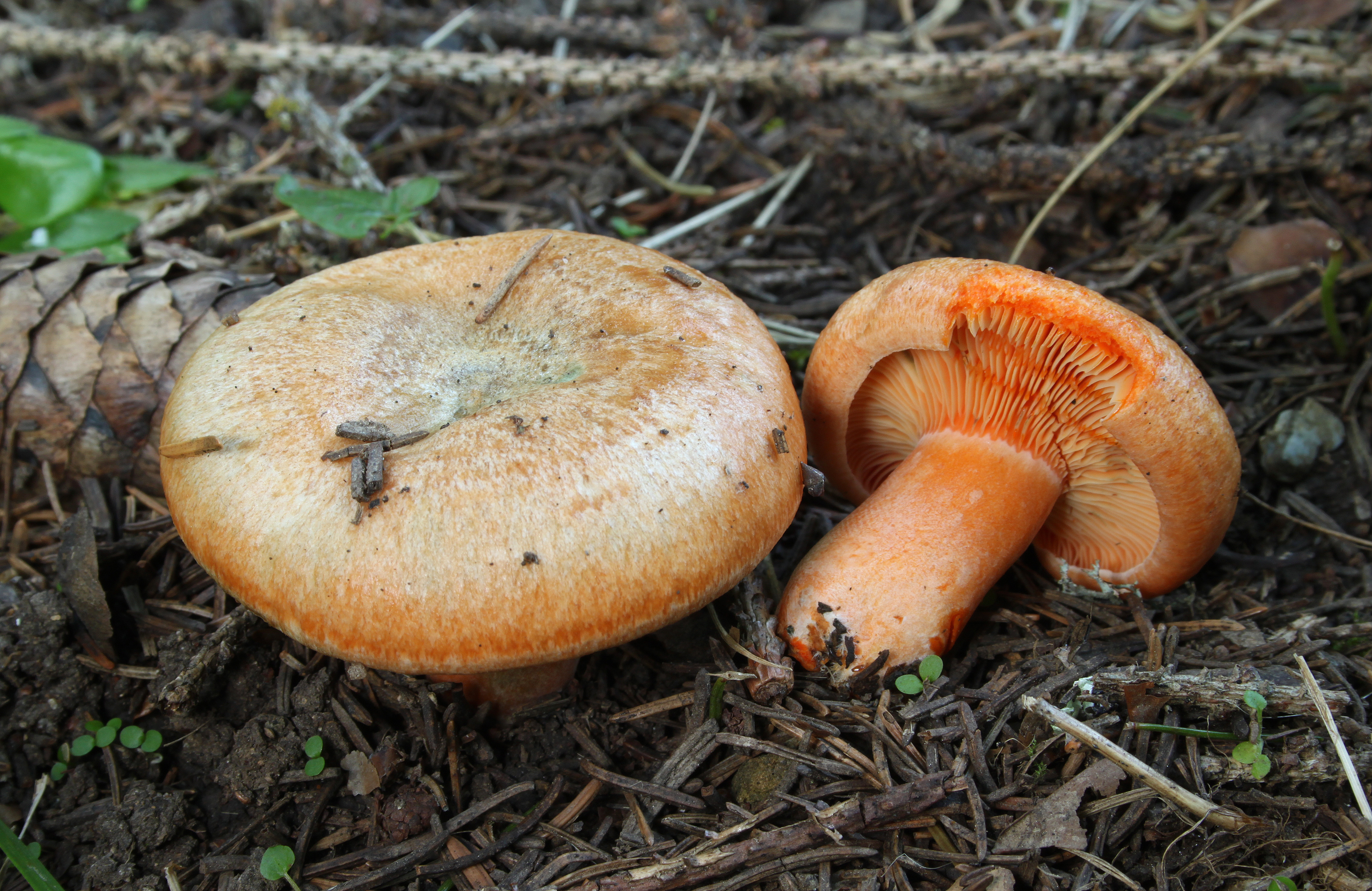 False Saffron Milk-Cap, Lactarius deterrimus, Family: Russulaceae, Location: Germany, Oberstdorf